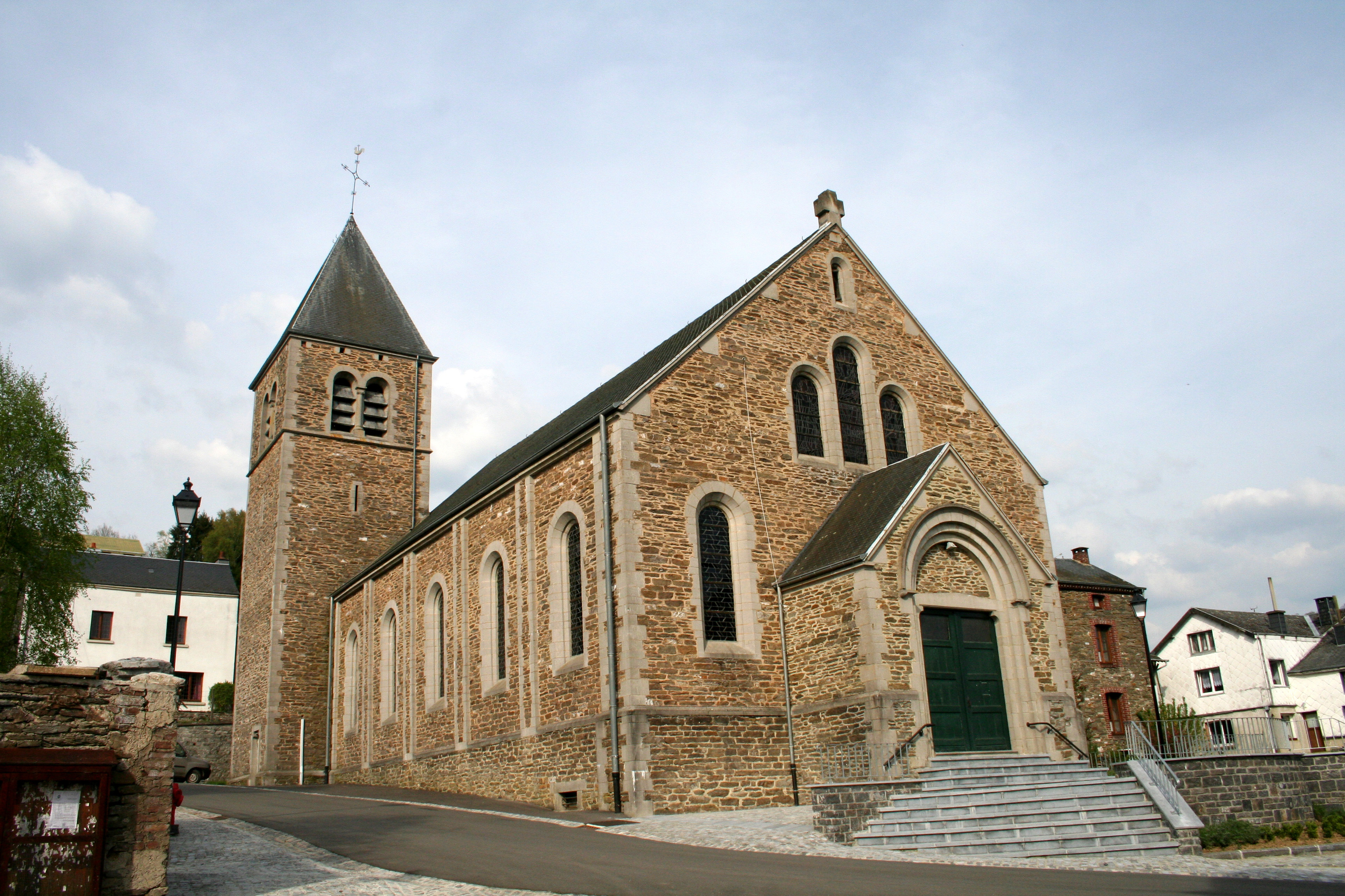 Poupehan (Belgium), the St. Remaclus church (1934-1935).